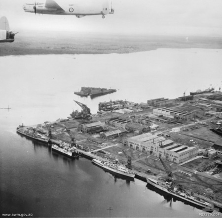 Australian War Memorial image P02379.004. Two Royal Australian Air Force Avro Lincoln heavy bombers flying over Singapore Naval Base